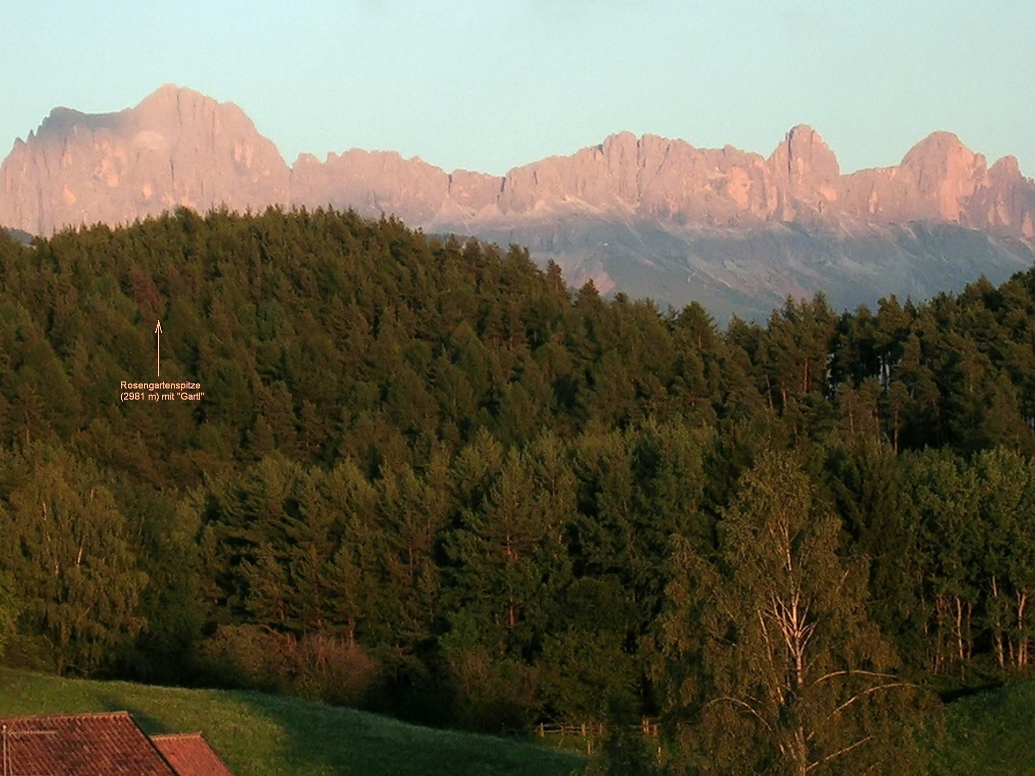 Ciadenac/Rosengarten/Catinaccio (South Tyrol) during sunset